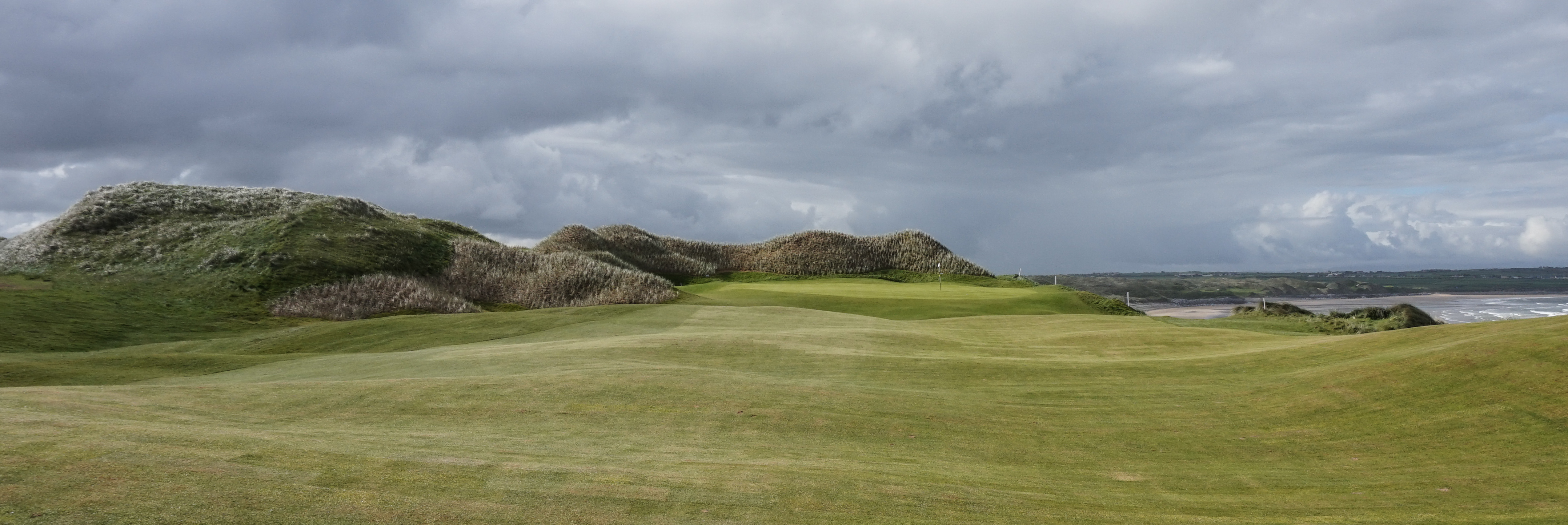 7th hole of the Old Course of the Ballybunion Golf Club, County Kerry, Ireland